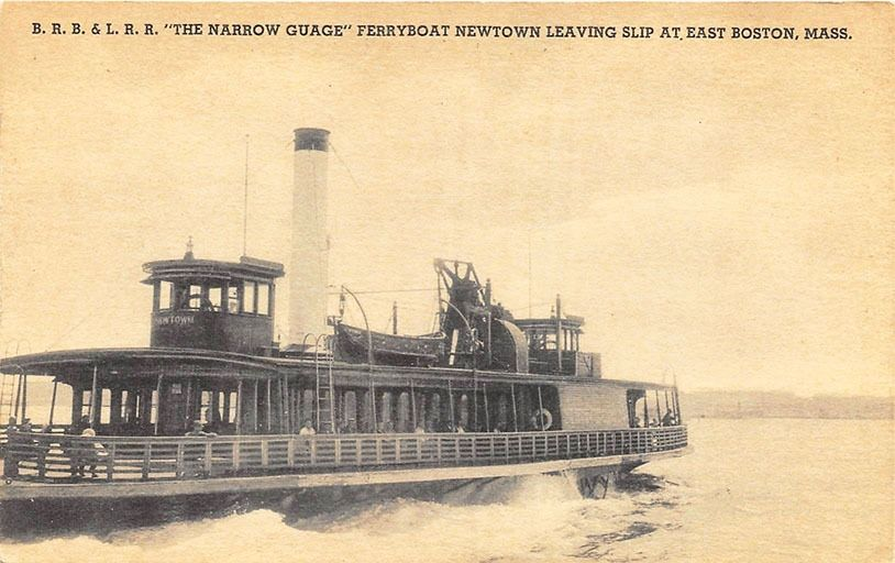 The Boston, Revere Beach and Lynn Railroad ferry 'Newtown' on an early divided back postcard